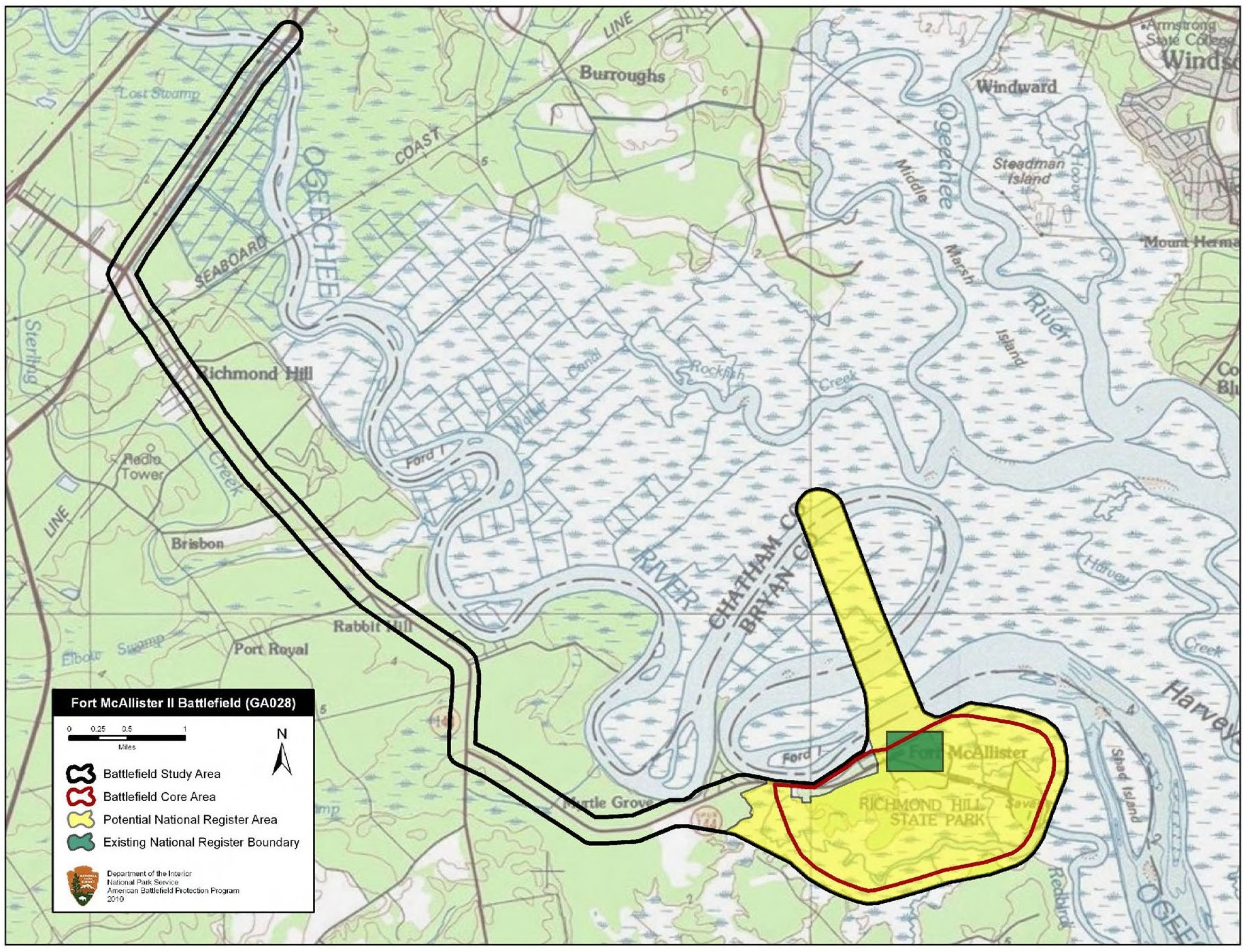 Map of battlefield core and study areas. The boundaries include: the Federal approach route from King's Bridge beginning where Federal forces crossed the Ogeechee River to begin their assault on the fort; the viewshed between Sherman’s observation post at Cheves Plantation, from which he signaled for the attack to begin, and Fort McAllister; the area of engagement.